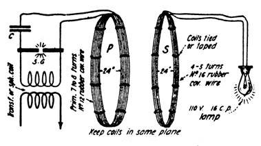 Illustration of experiment demonstrating wireless power transmission by Nikola Tesla, in 1921 do-it-yourself magazine. The circuit functions as a Tesla coil. The transmitter circuit (left) is a spark-excited resonant oscillator. The capacitor (C) and primary coil (P) form a resonant circuit. The capacitor repeatedly charges up, then discharges through the spark gap (S-G), creating radio frequency (RF) oscillating currents in the primary. These induce alternating currents by Ampere's law in the secondary coil (S), powering the lamp. The frequency of the oscillating currents was around 100 kHz to 1 MHz. Tesla used similar circuits in public lectures during the 1890s to light lamps wirelessly at distances of tens of feet.